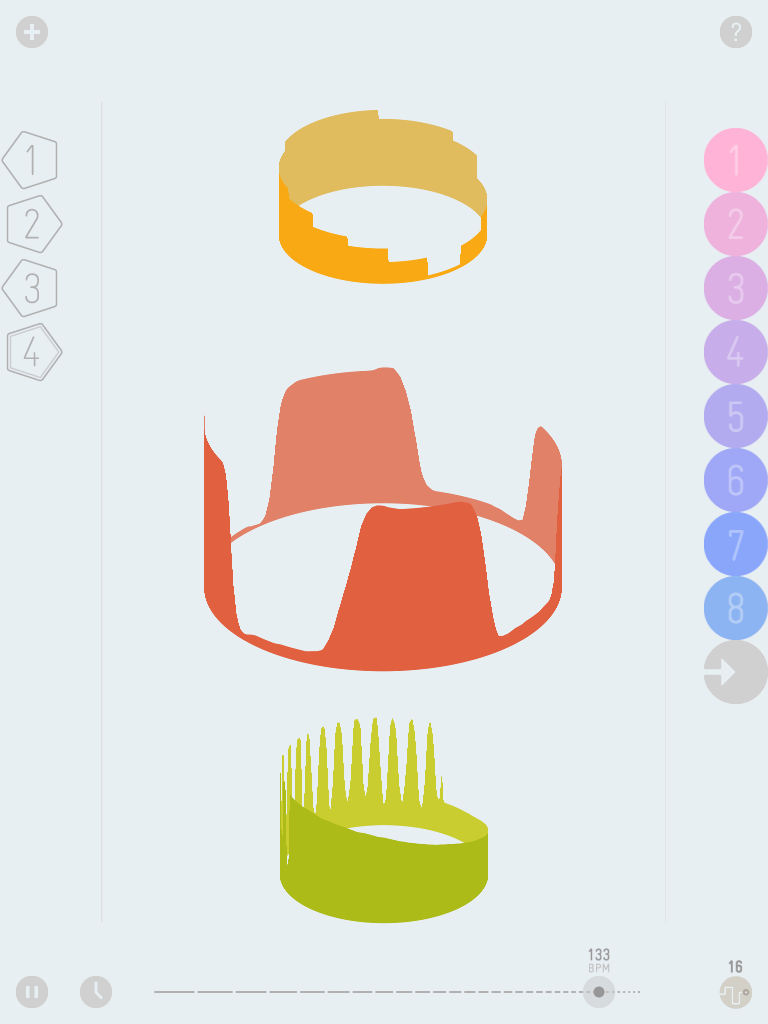 OscilloScoop screenshot from the iPad app by Scott Snibbe and Lukas Girling